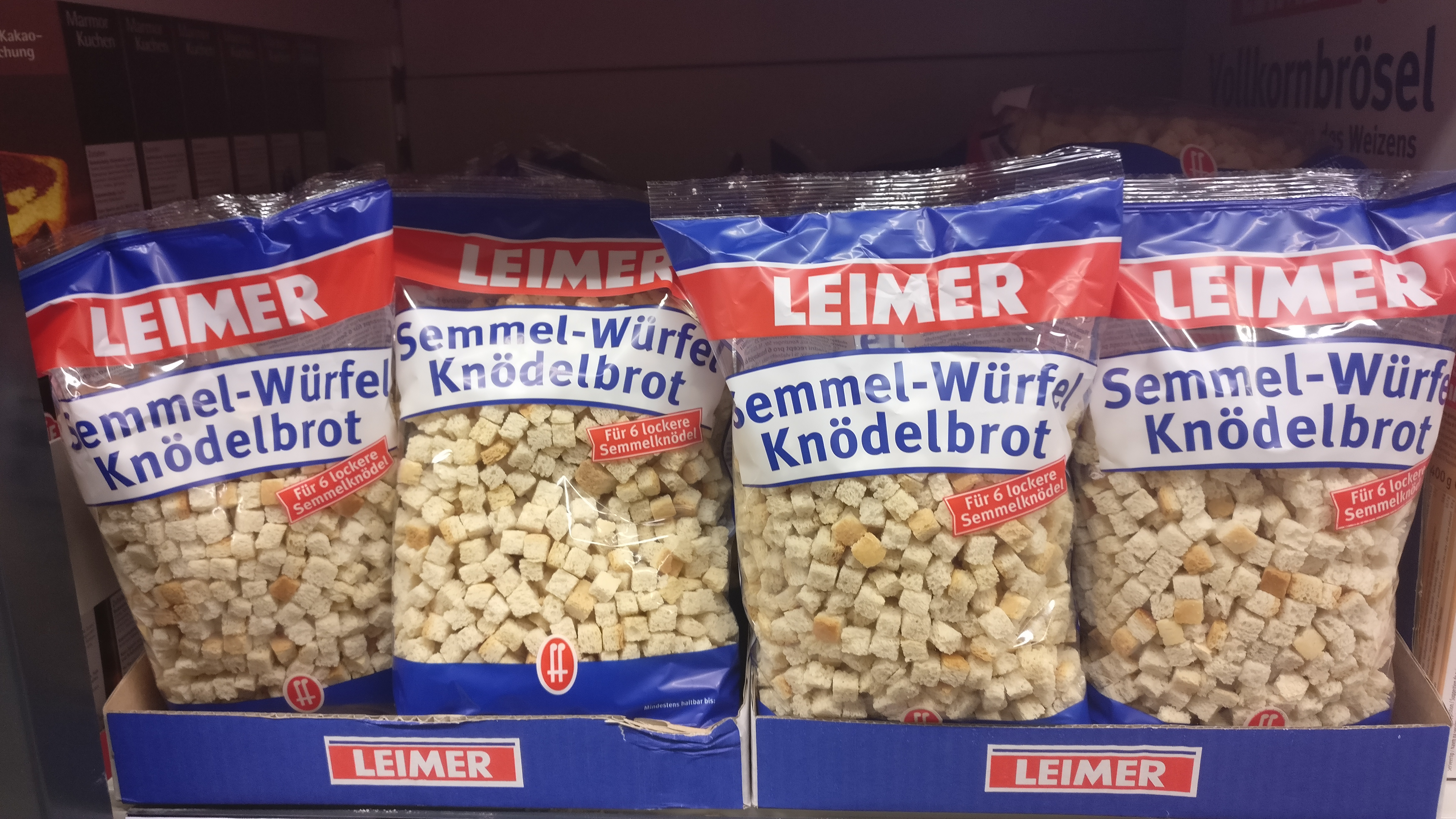 "Knödelbrot" consists of bun cubes. It is used for the production of dumplings in Austria and Germany.